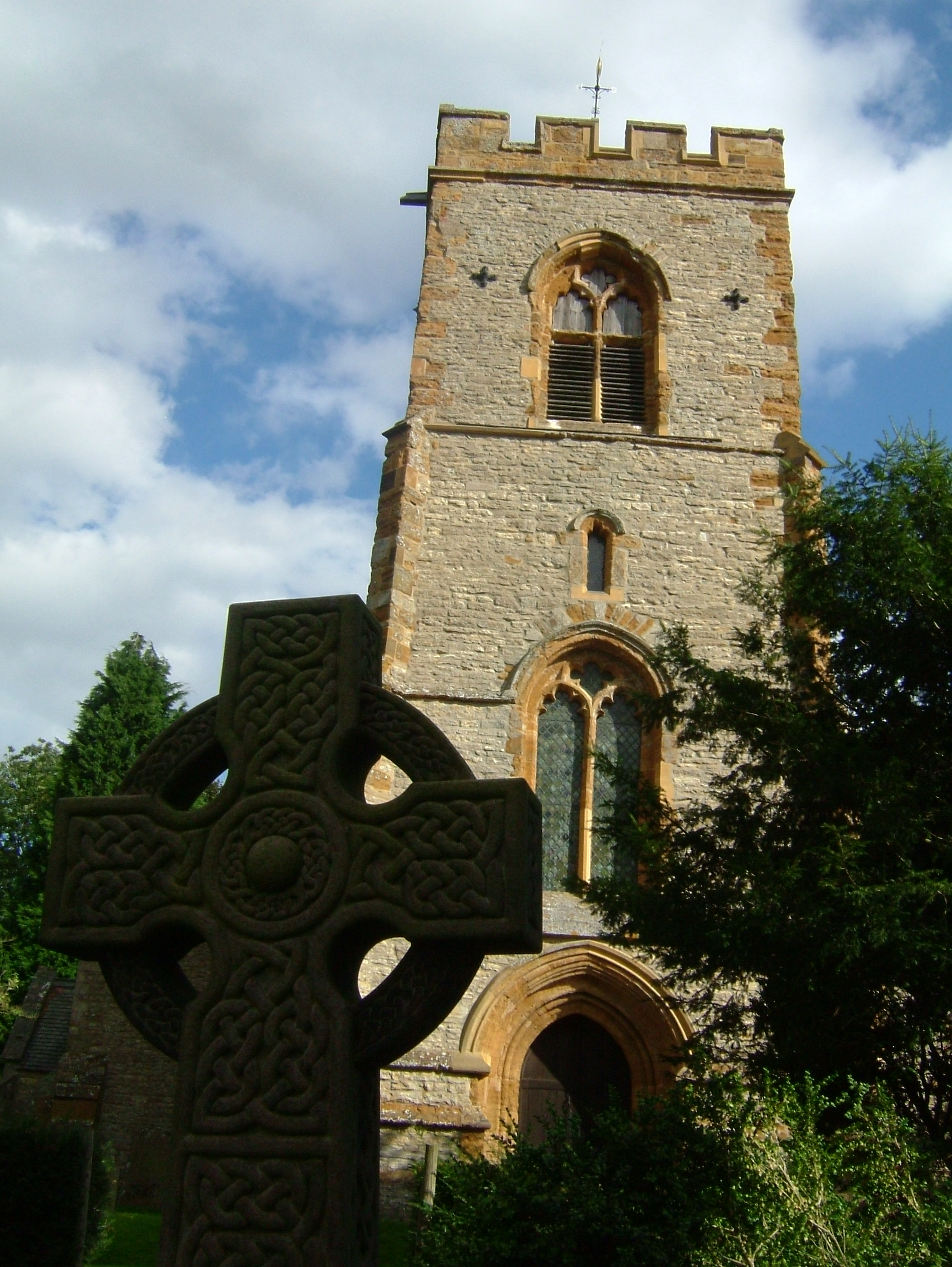 Parish church of SS Peter and Paul, Courteenhall, Northamptonshire, seen from the west